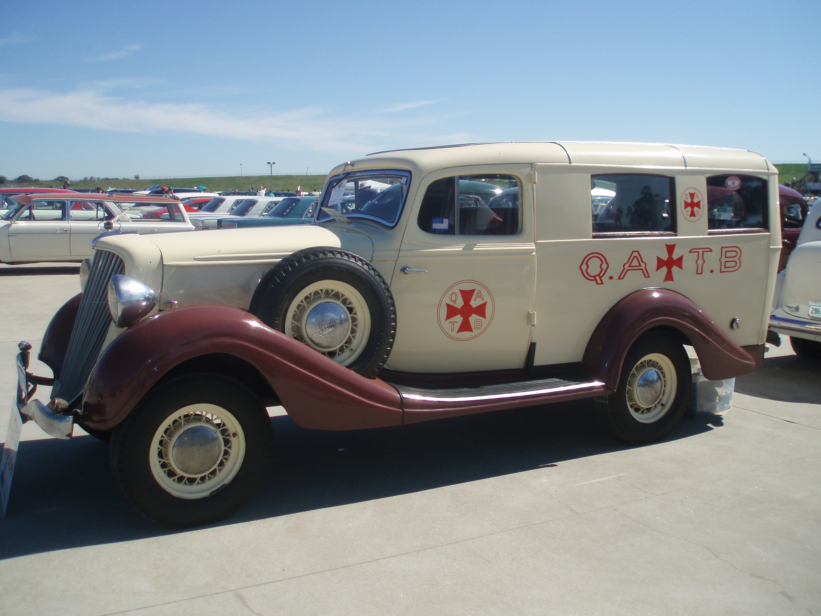 1934 Terraplane ambulance. An original Queensland ambulance restored in the period correct livery of the Queensland Ambulance Transport Brigade. Taken at Shannon's Eastern Creek Classic 2007, held at Eastern Creek Raceway Sydney.